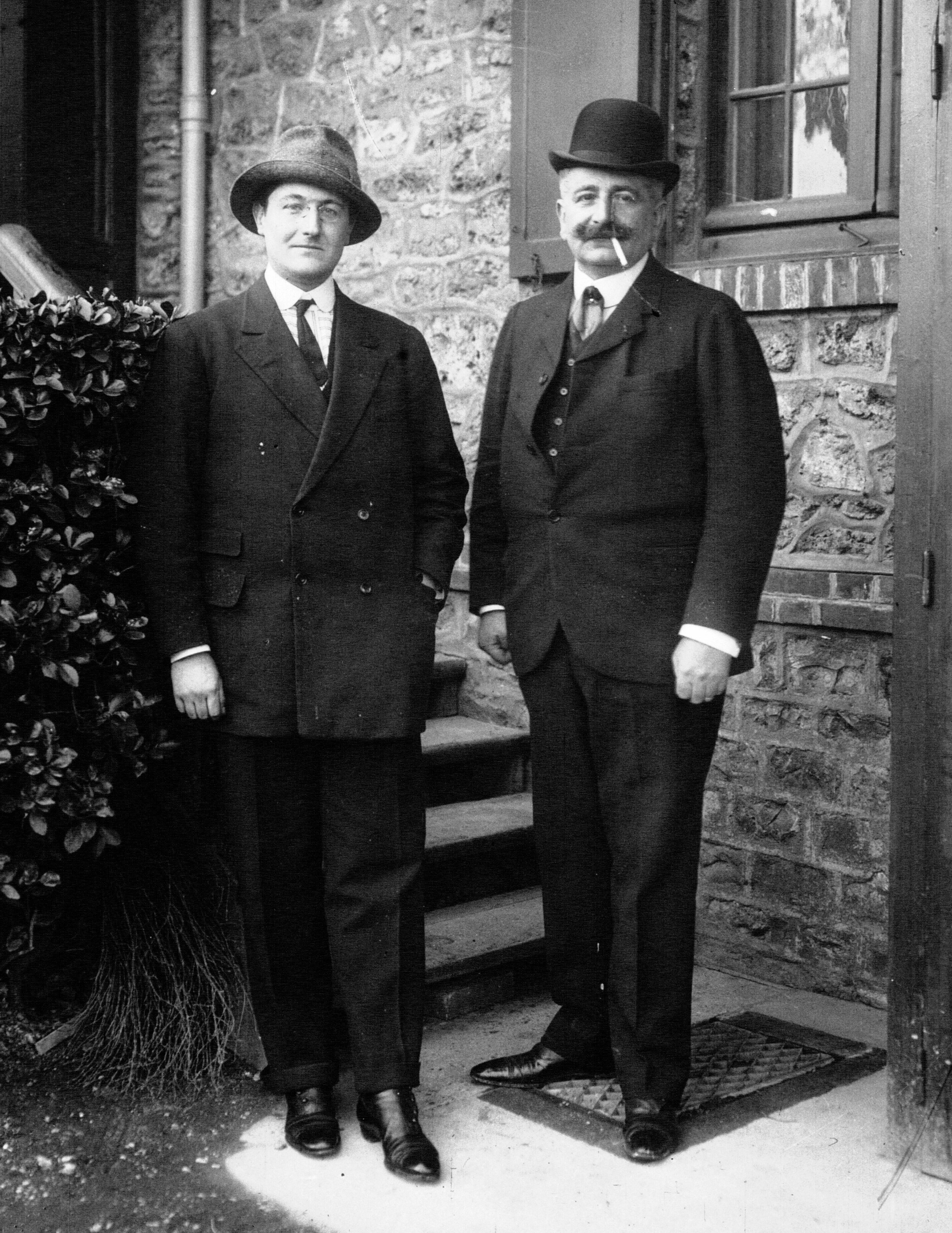 French engineers and industrialists Laurent (1883-1944) and Louis Seguin (1869-1918).